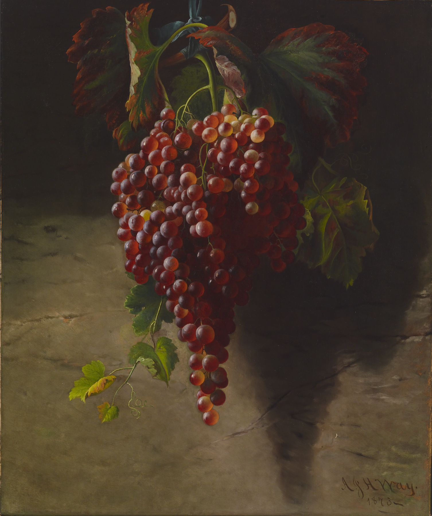 The grapes in this painting have been identified as the Prince Albert variety, which William T. Walters grew at his Govans estate, Saint Mary's. Way was a Baltimore painter who began his career as a portraitist; but, on the advice of the influential Düsseldorf artist Emanuel Leutze (known for his famous work, "Washington Crossing the Delaware," in the Metropolitan Museum of Art, New York), he turned to still lifes, specializing in such subjects as bunches of grapes and oysters.